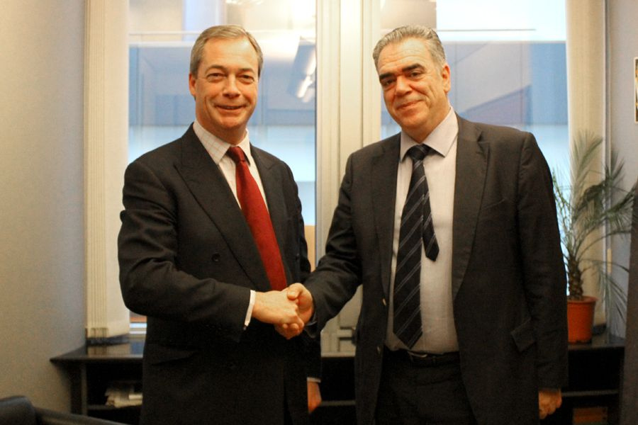 Nigel Farage (left) and Greek Deputy Foreign Minister Dimitris Kourkoulas.